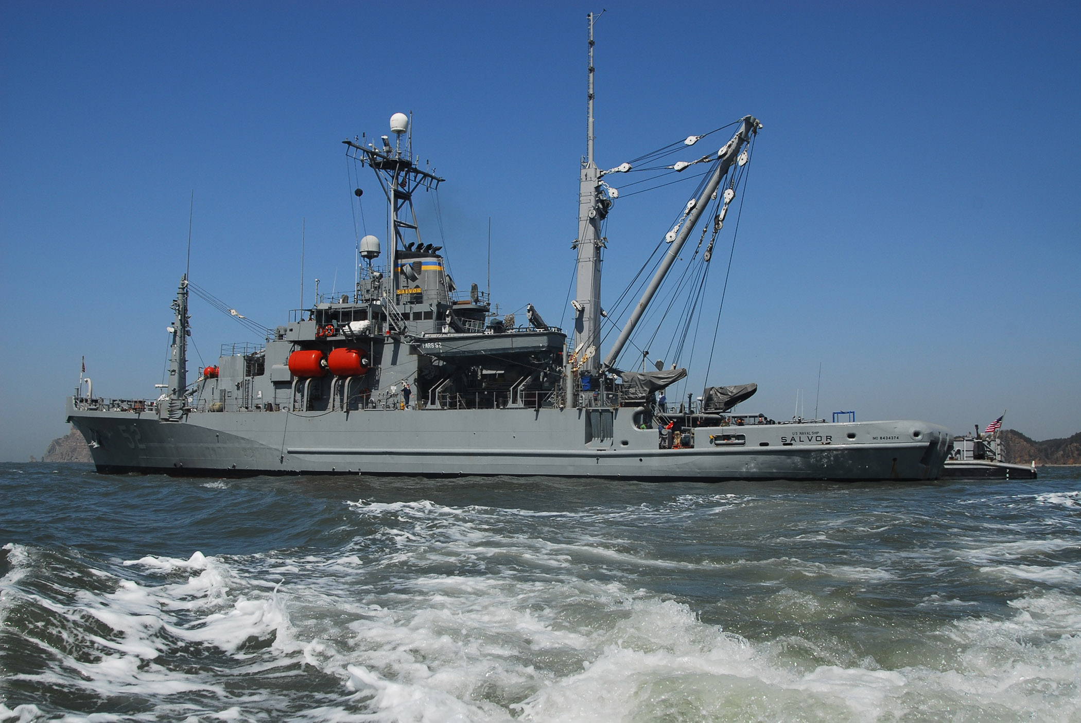 YELLOW SEA (Apr. 3, 2010) USNS Salvor (T-ARS 52) anchored in the Yellow Sea off the coast of the Republic of Korea in support of Republic of Korea Navy search and rescue efforts in the wake of the sinking of ROKS Cheonan. USS Harpers Ferry, USNS Salvor, USS Curtis Wilbur and USS Lassen are in the area supporting ROK efforts. (US Navy photo by Lt. Cmdr. Denver Applehans)